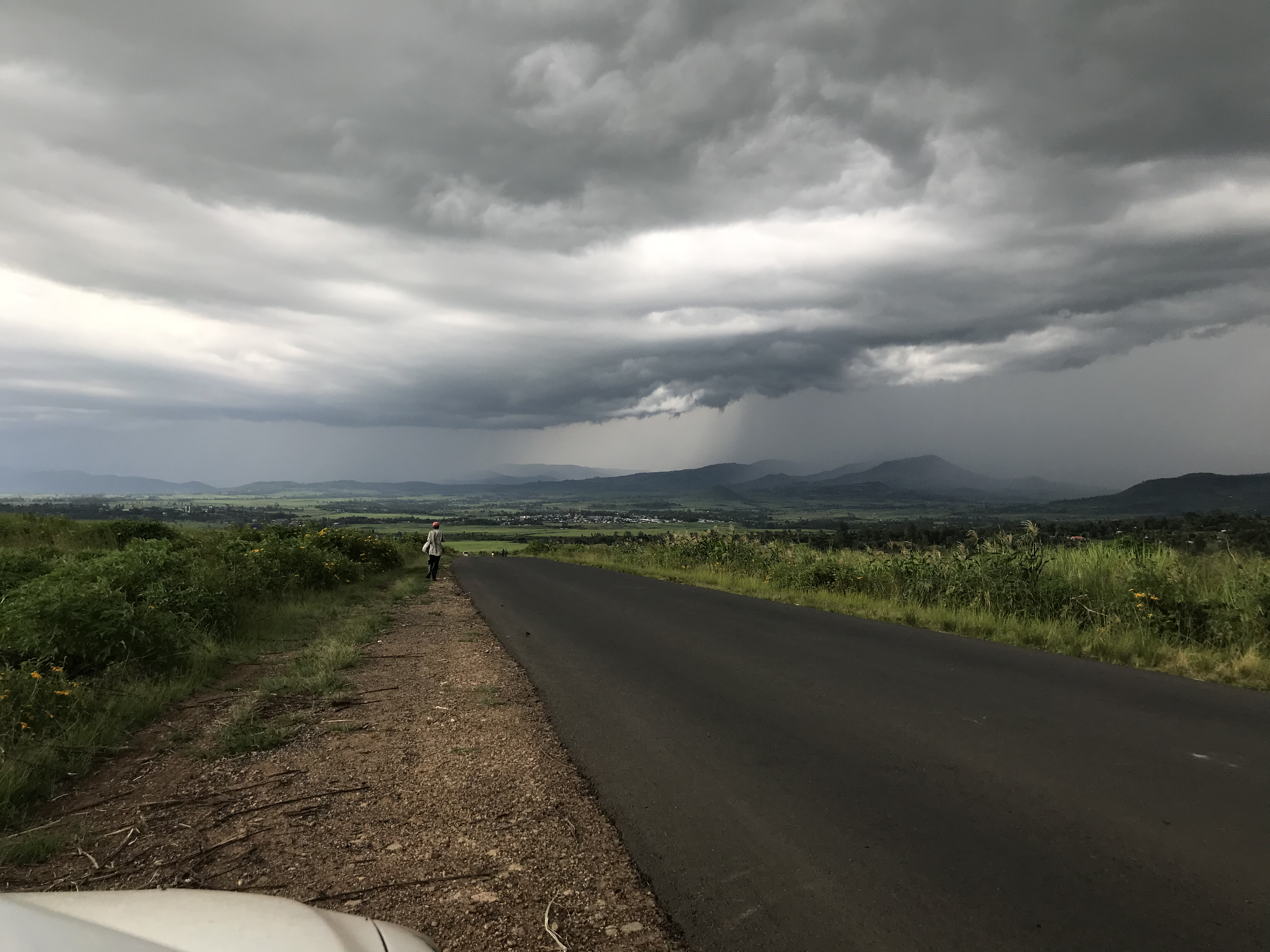 This is an image with the theme "Africa on the Move or Transport" from: Kenya